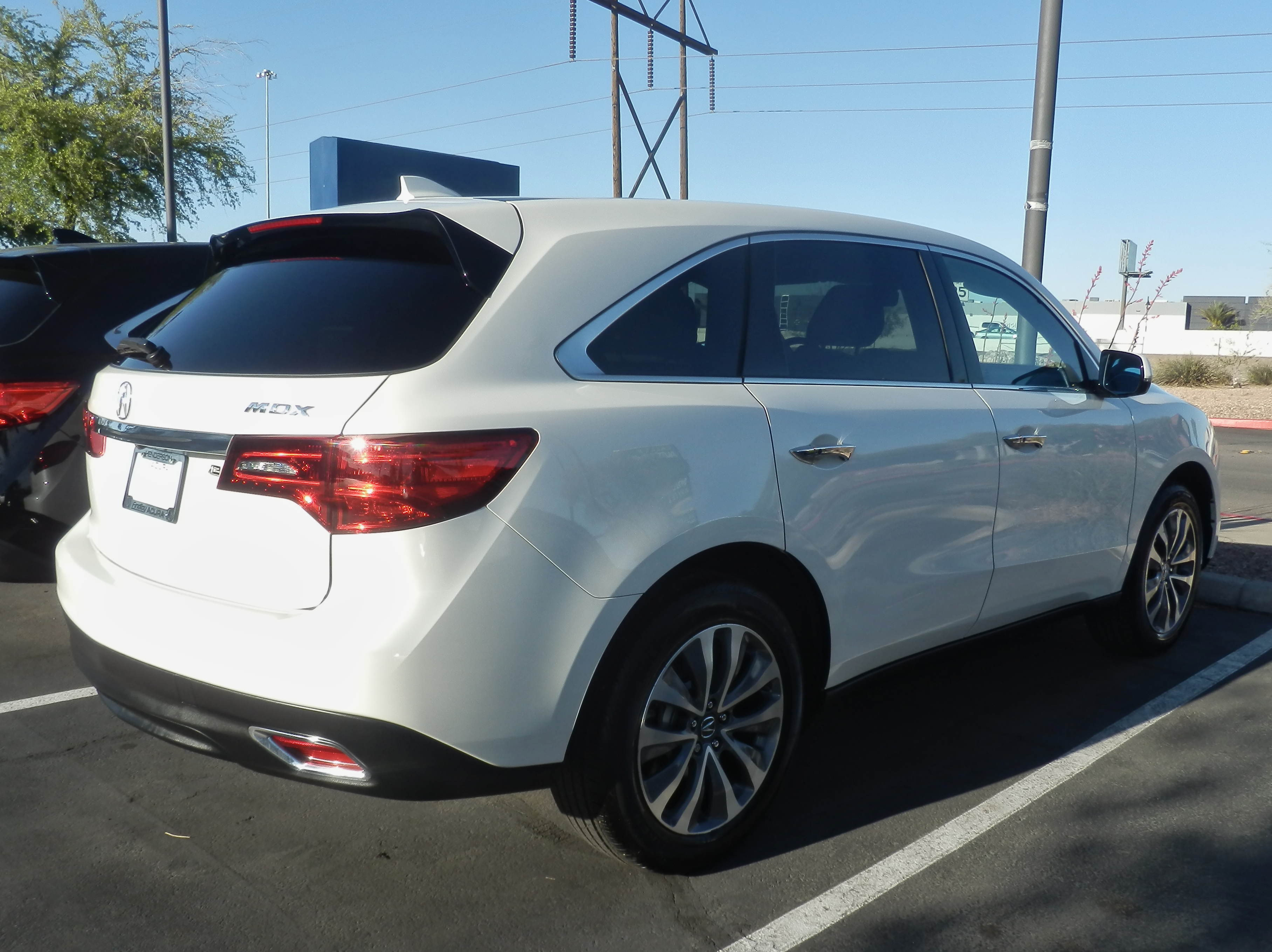 Acura MDX in Las Vegas